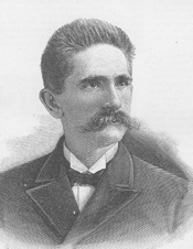 George W. Cooper, US Representative from Indiana